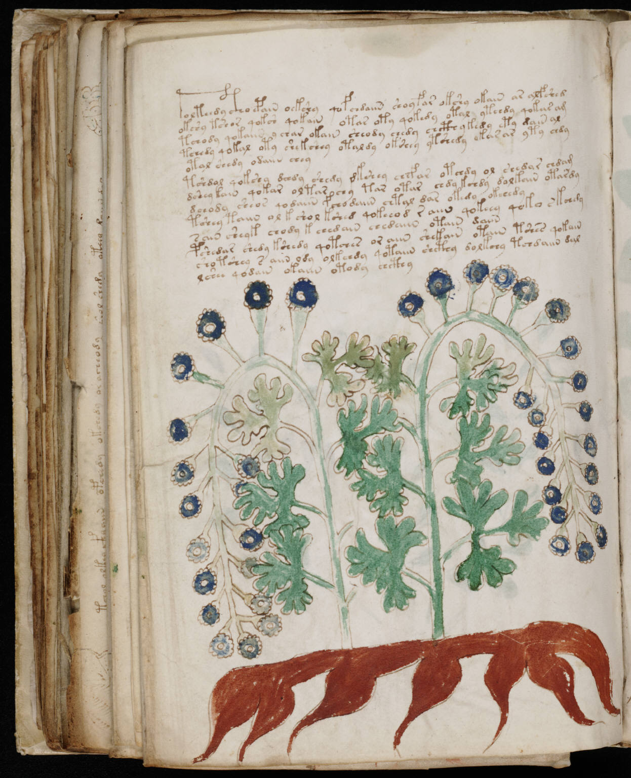 A page from the mysterious Voynich manuscript, which is undeciphered to this day.